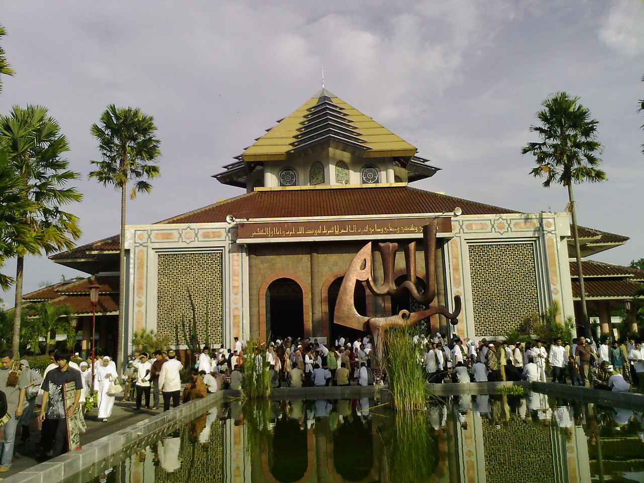 After ied fitri praying @ UGM mosque Yogya